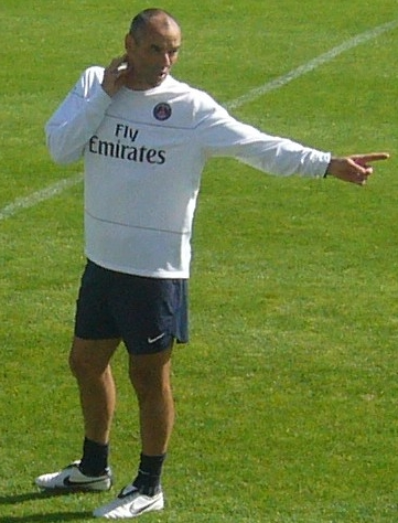 Photo of PSG manager Paul Le Guen taken at Camp des Loges in Saint-Germain en Laye.